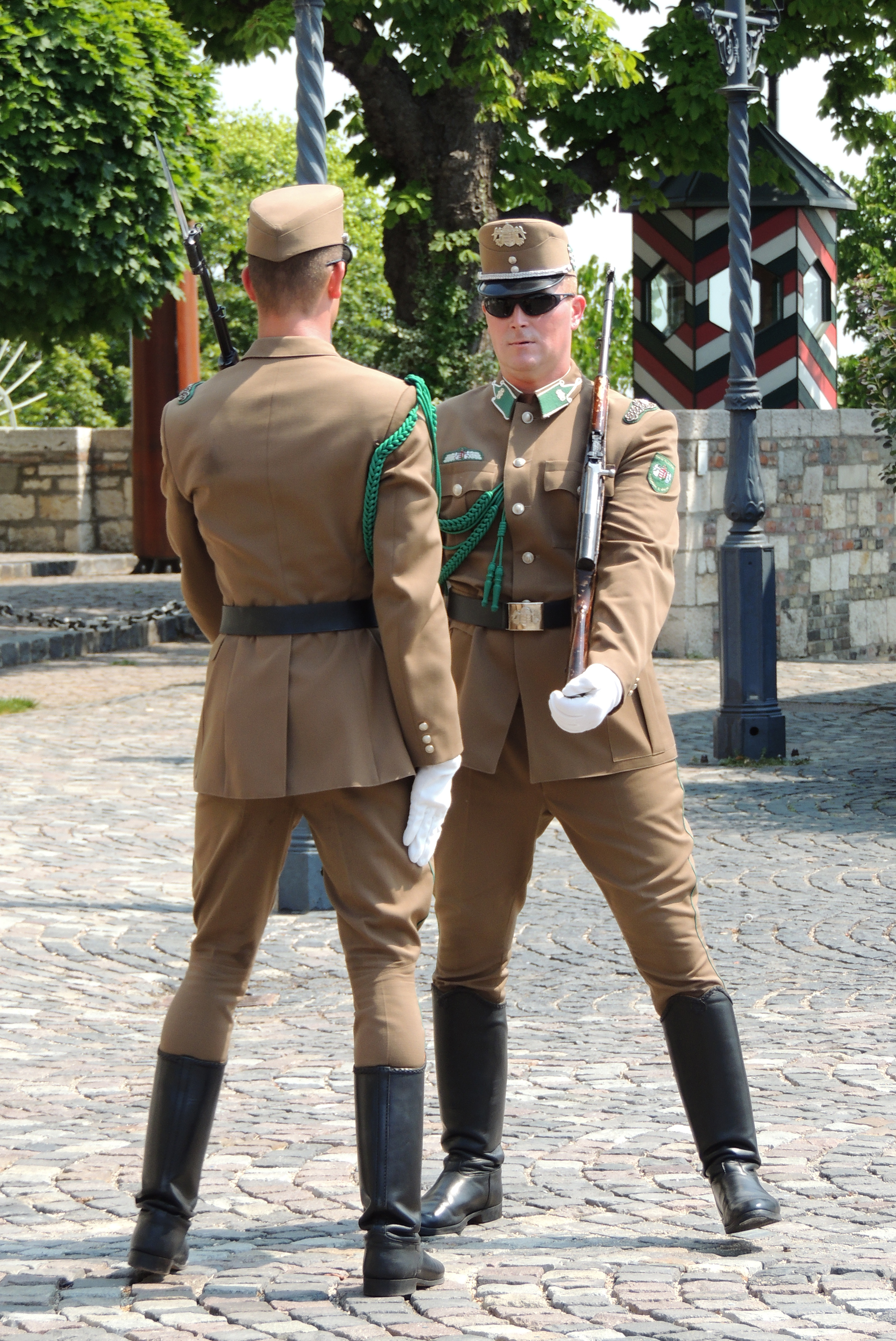 Changing the Guard in front of the Sándor Palace in Budapest.